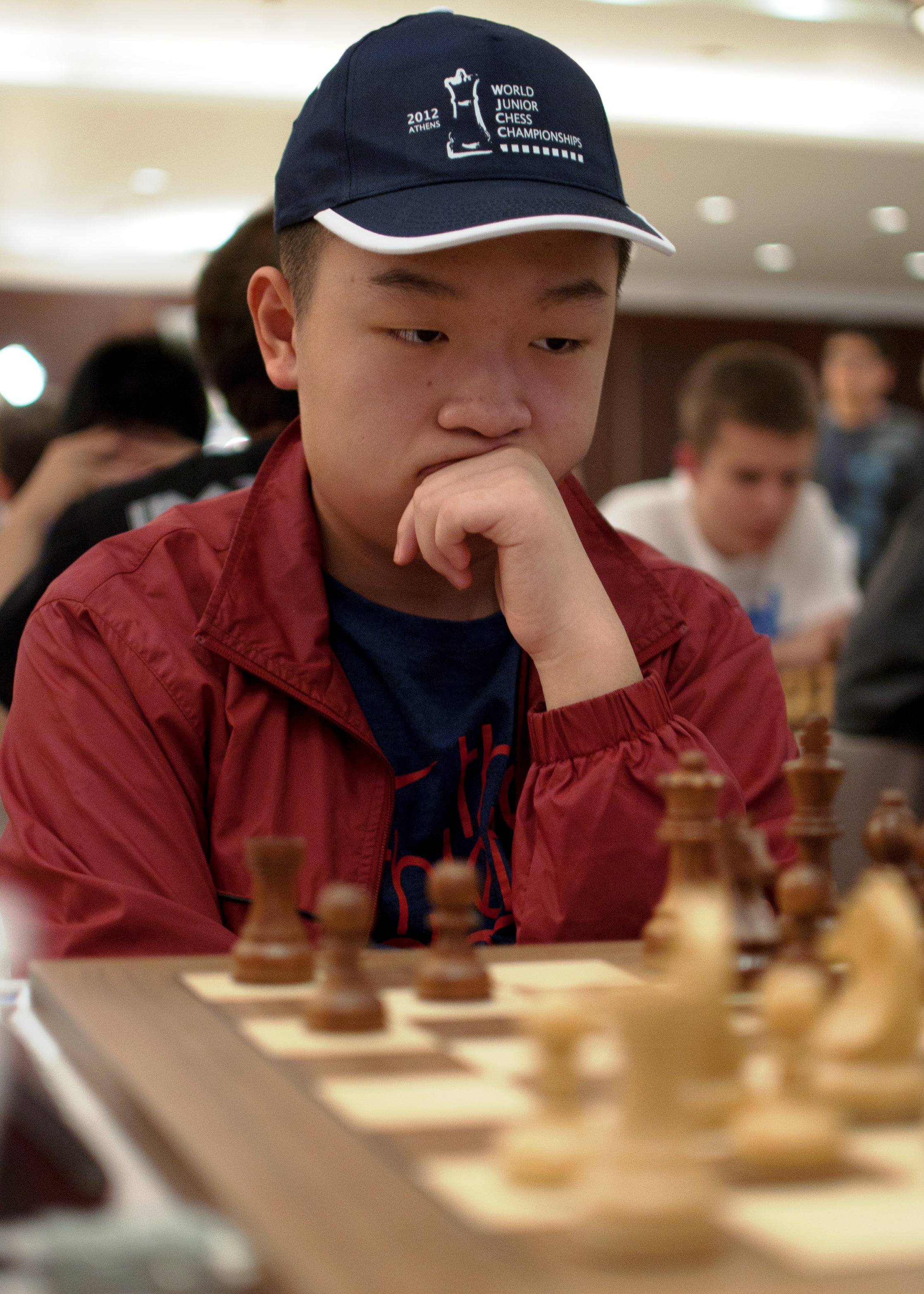 Wei Yi, WChJ Athens 2012